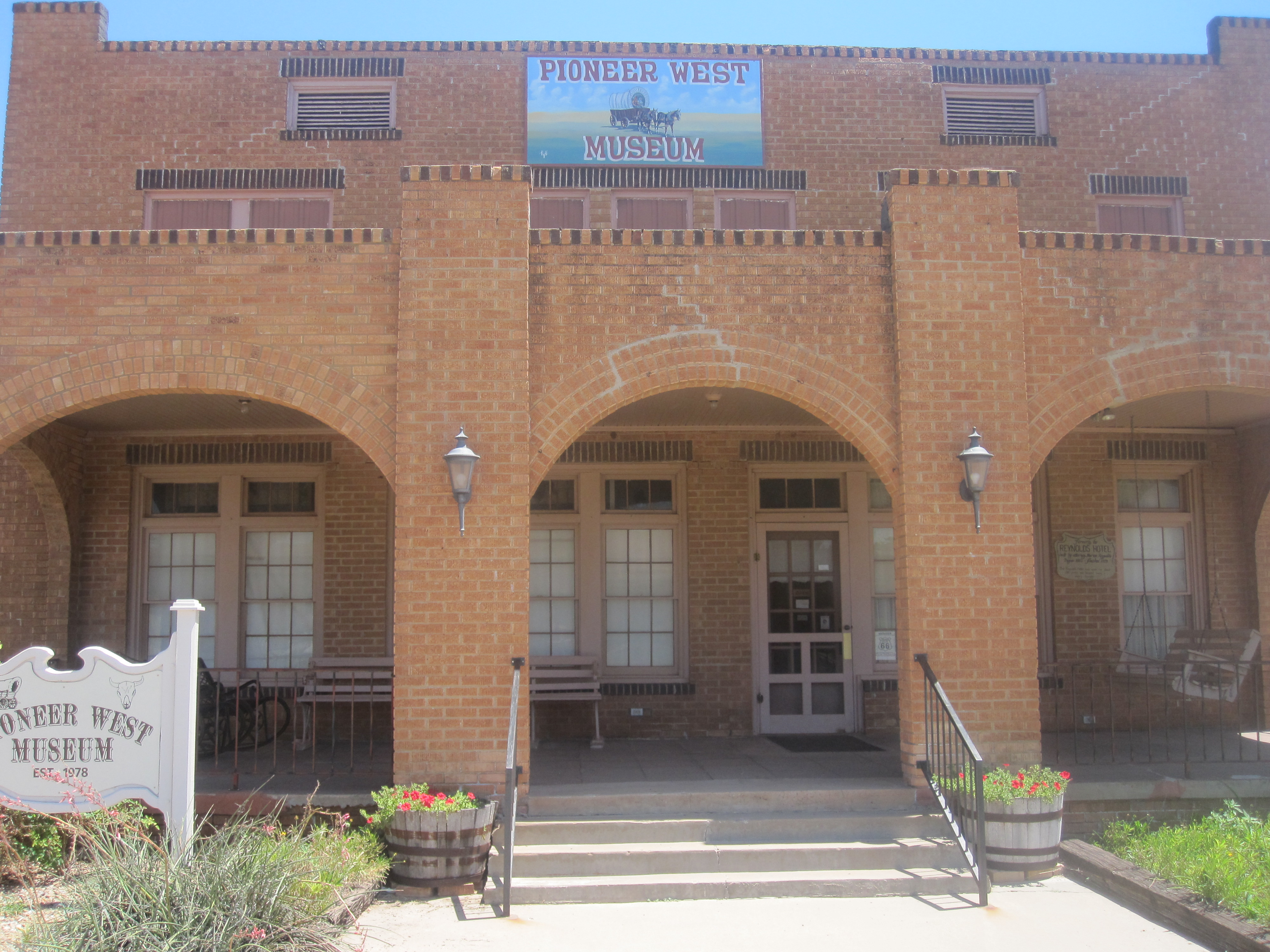 I took photo with Canon camera in Shamrock, TX.